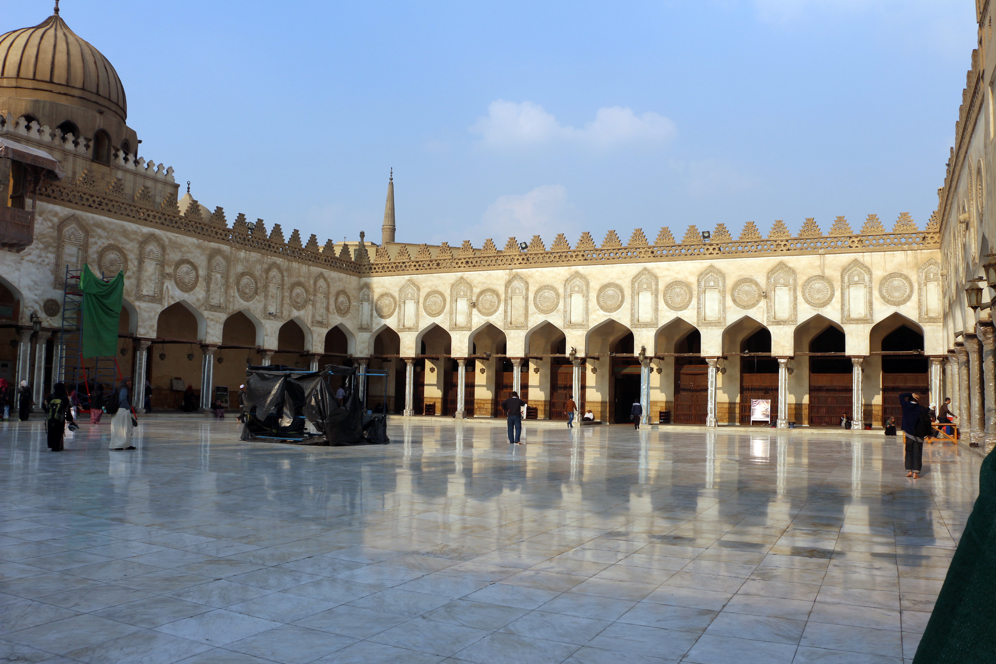 Al-Azhar Mosque